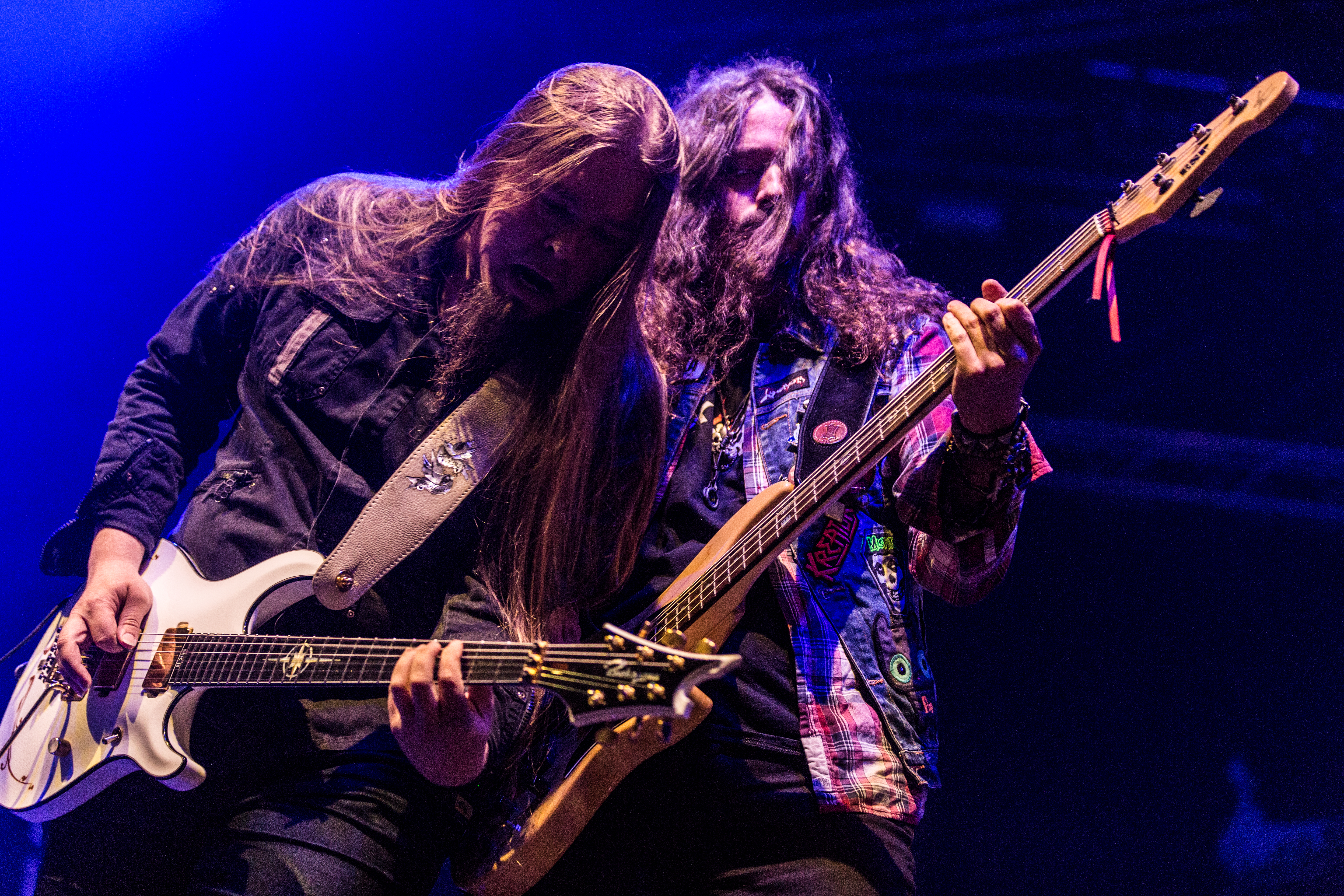 The Finnish power metal band Stratovarius at the Metal Frenzy 2017 in Gardelegen/Germany.